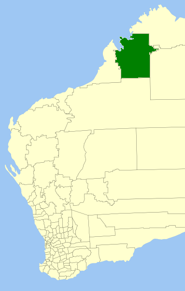 Location of the Local Government Area in Western Australia hello